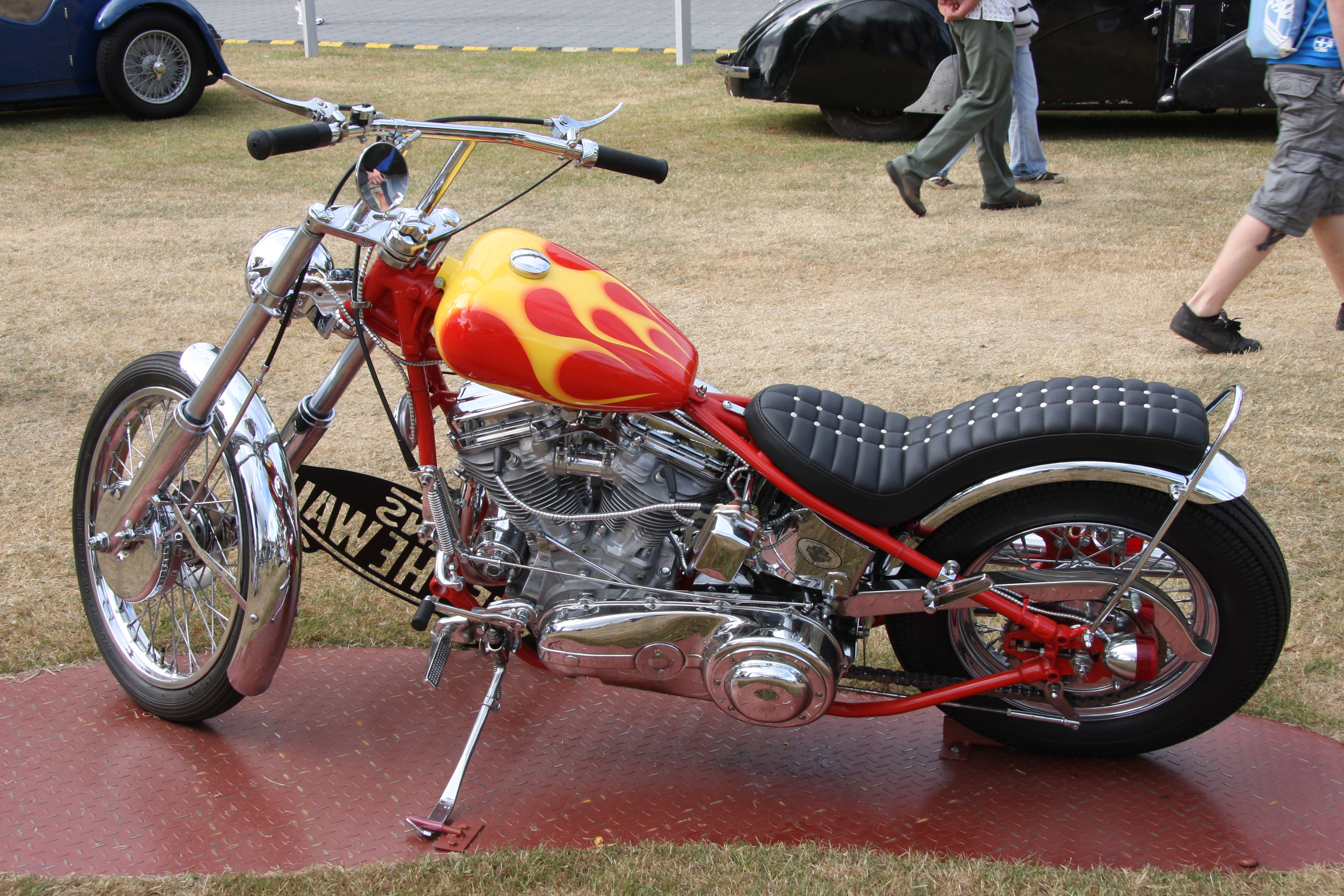 1969-type Billy Bike